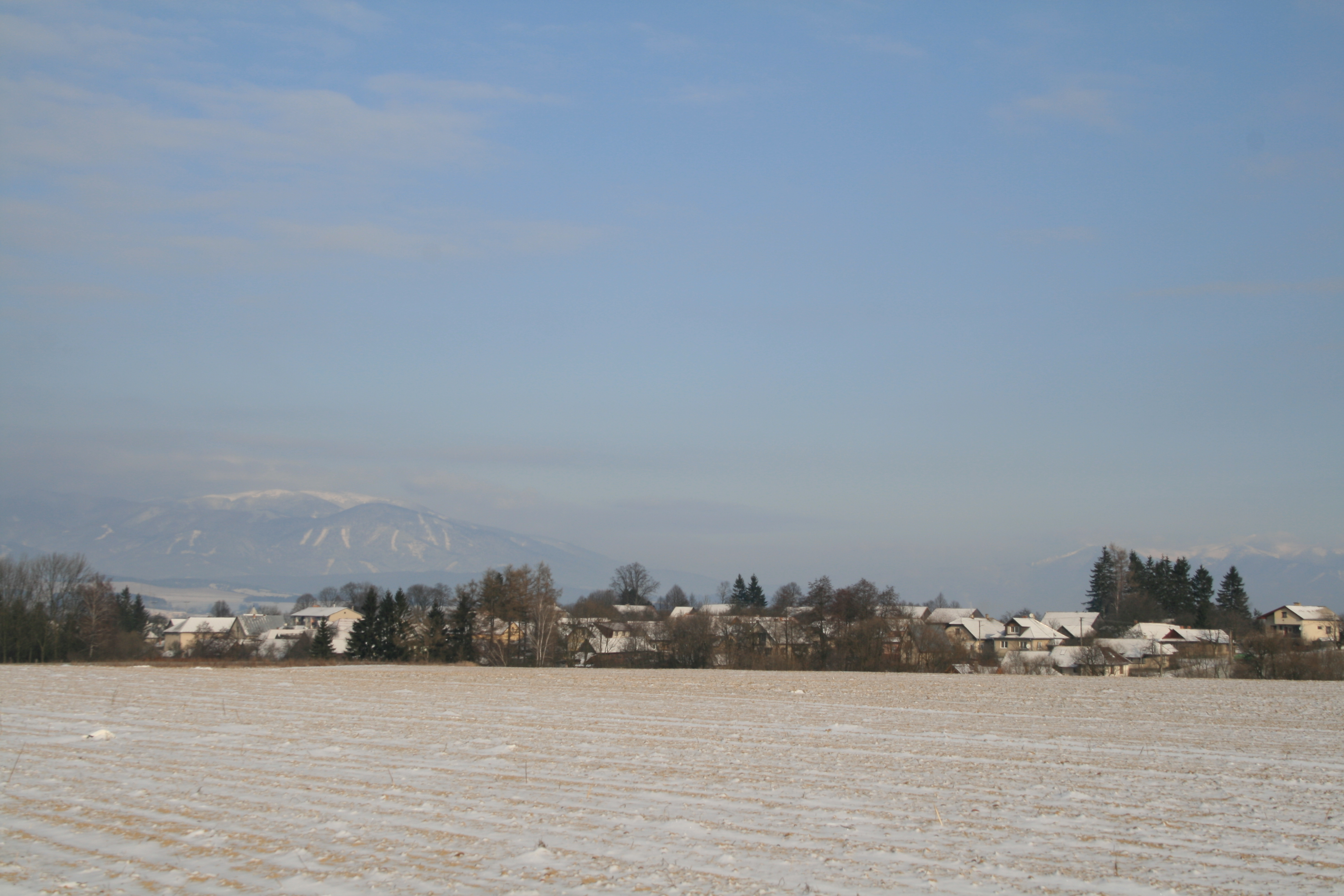 Velky Cepcin - winter